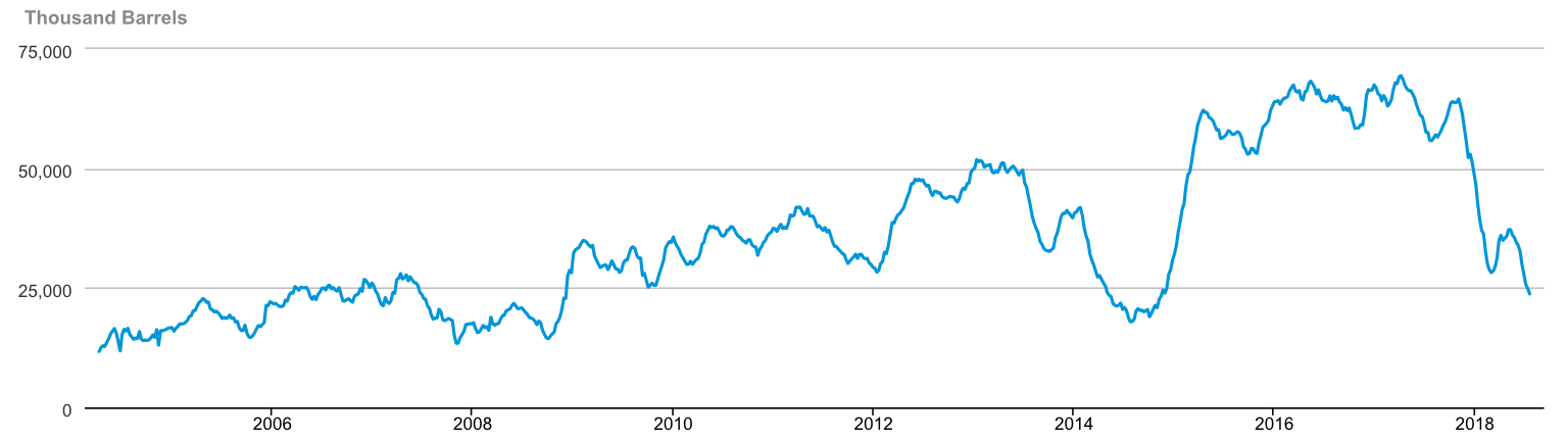 Weekly Cushing, OK Ending Stocks excluding SPR of Crude Oil